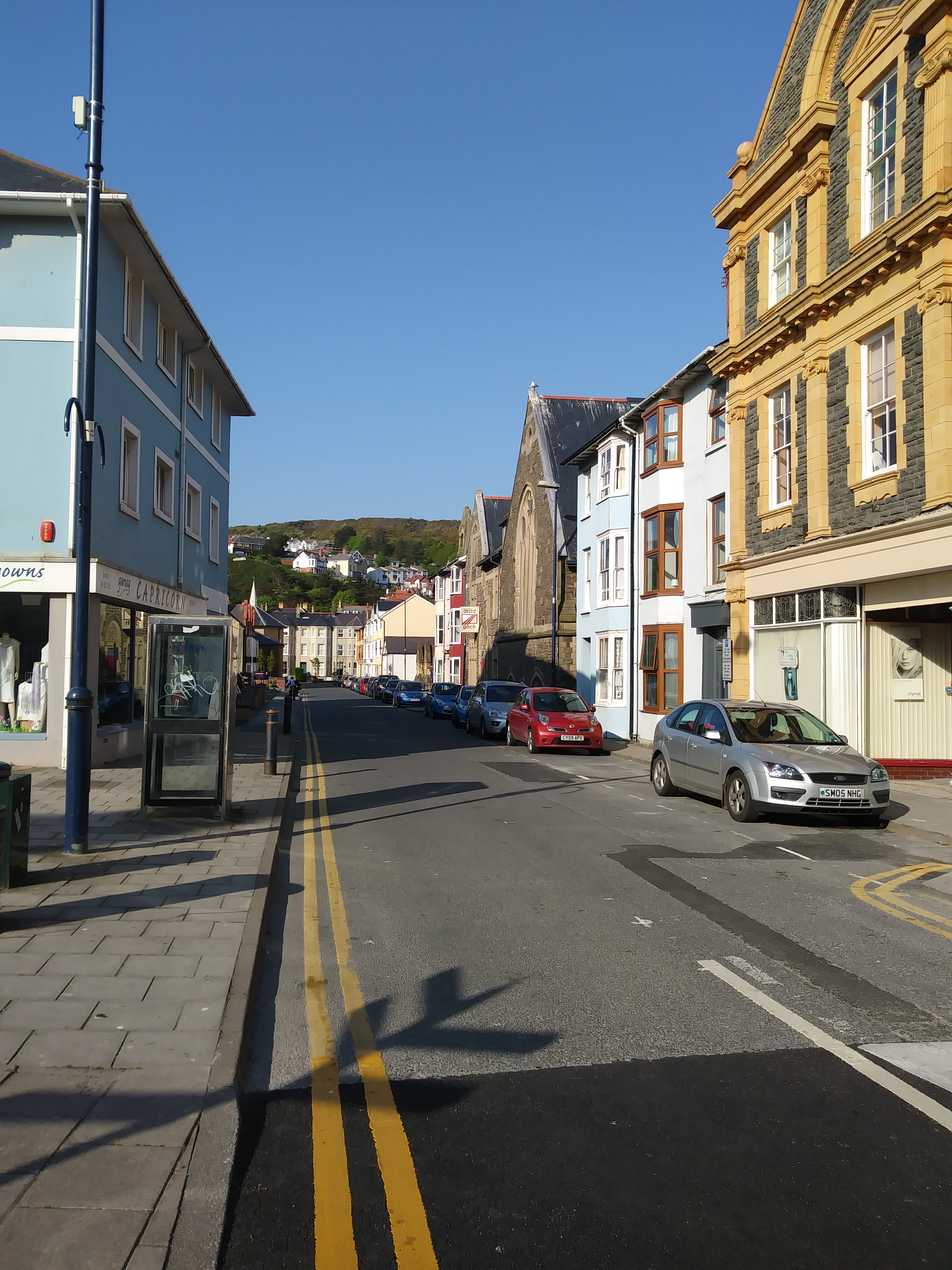 Bath St from Llys y Brenin, Aberystwyth